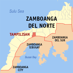 Map of the Zamboanga del Norte showing the location of Tampilisan